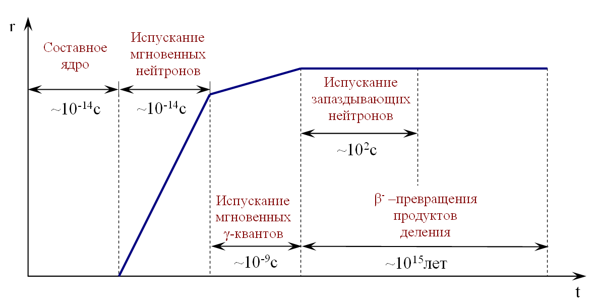 Stages of nuclear fission